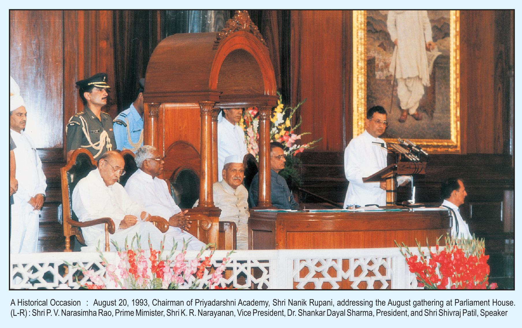 Nanik Rupani speaking at the August gathering at the Parliament House. Seen in the picture are Prime Minister P.V. Narsimha Rao, Vice President K.R.Narayan, President Shankar Dayal Sharma, and Speaker of the Lok Sabha Shivraj Patil.